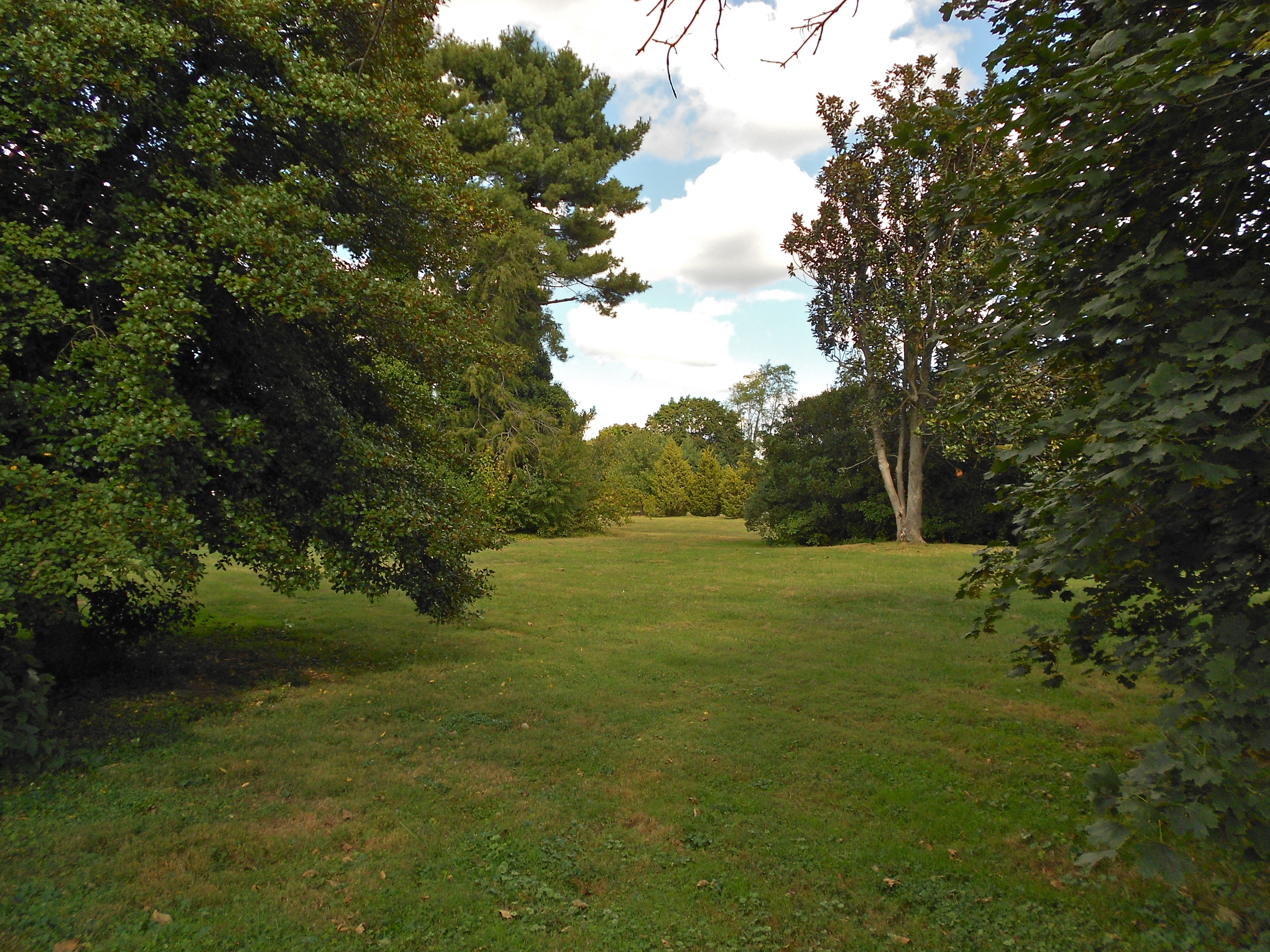 Empty lot at 201 E. Main, Middletown, Delaware. Former site of the Philip Reading Tannery which was listed on the NRHP on April 26, 1978.